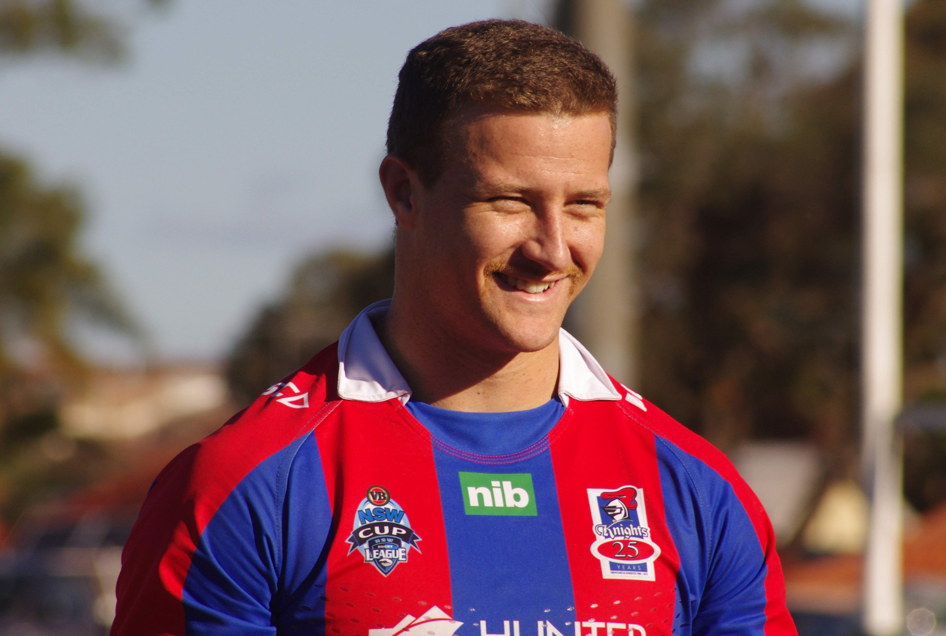 Korbin Sims